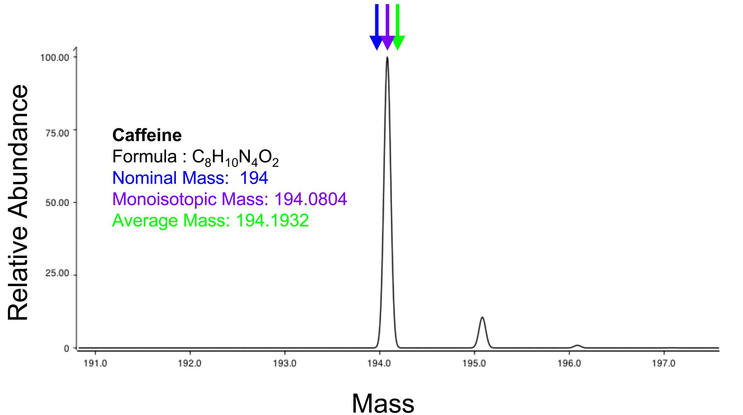 A simulated mass spectrum of the caffeine.